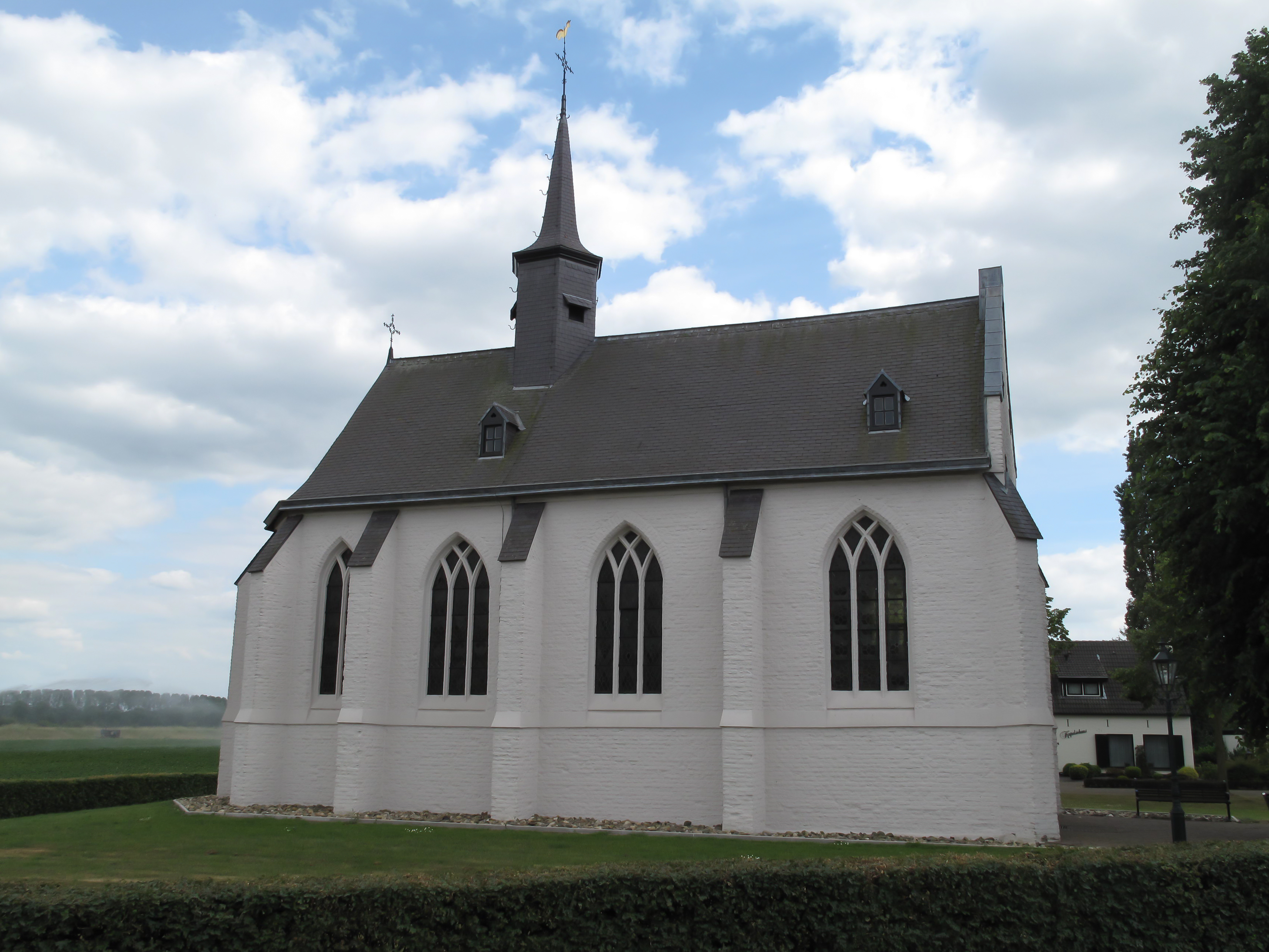 Aijen, chapel: Sint Antoniuskapel